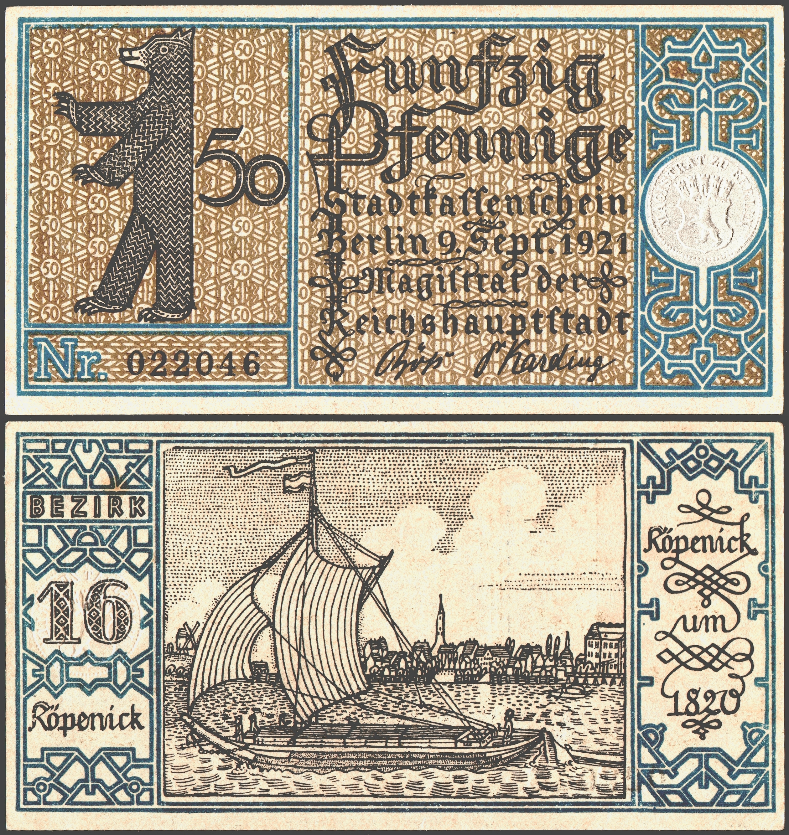 50 Pfennig "Notgeld" banknote (emergency money) of Berlin, distrikt Köpenick (1921), size: 55 mm x 105 mm.